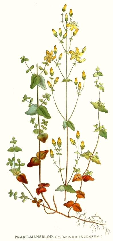 Original Description Prakt-Mansblod, Hypericum pulchrum L.